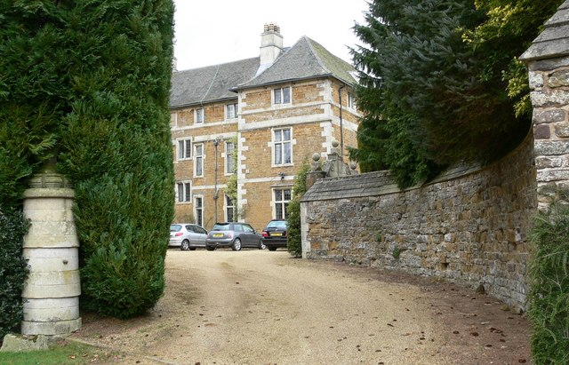 The Hall in Cold Overton Along Main Street.